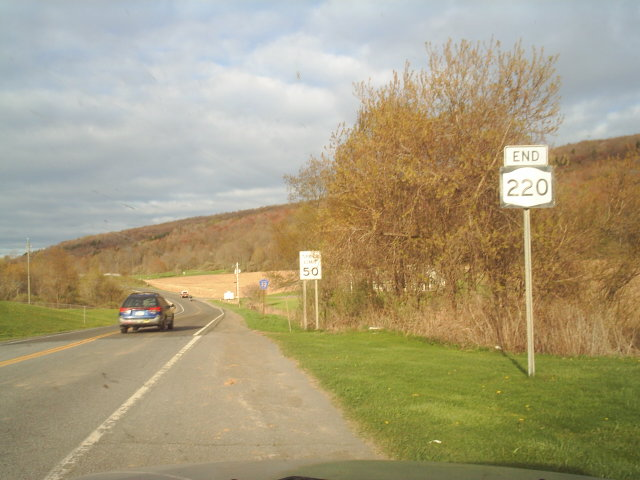 New York State Route 220 at its eastern terminus in Oxford, New York. The first Chenango County Route 32 shield is viisble near the change of pavement.